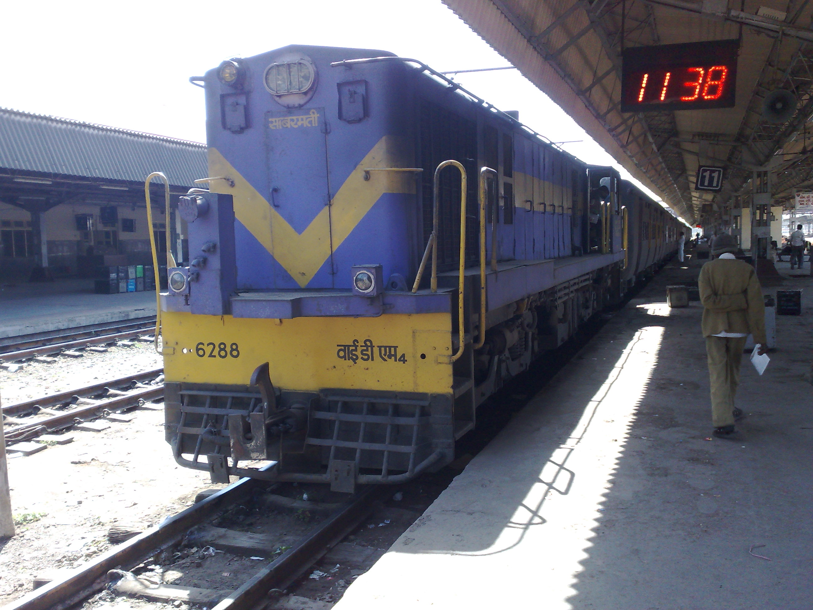 YDM 4 at Ahmedabad Meter guage section